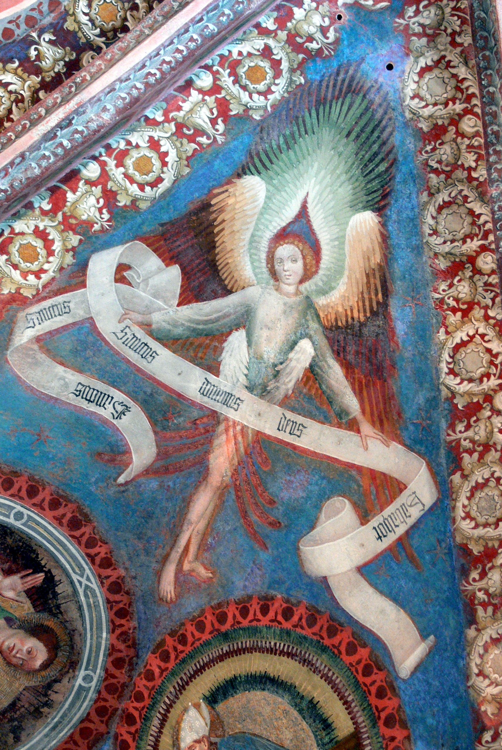 Tramin ( South Tyrol, Italy ). Saint James church in Kastelaz: Gothic frescos ( 1441 ) by Ambrosius Gander - Seraph.